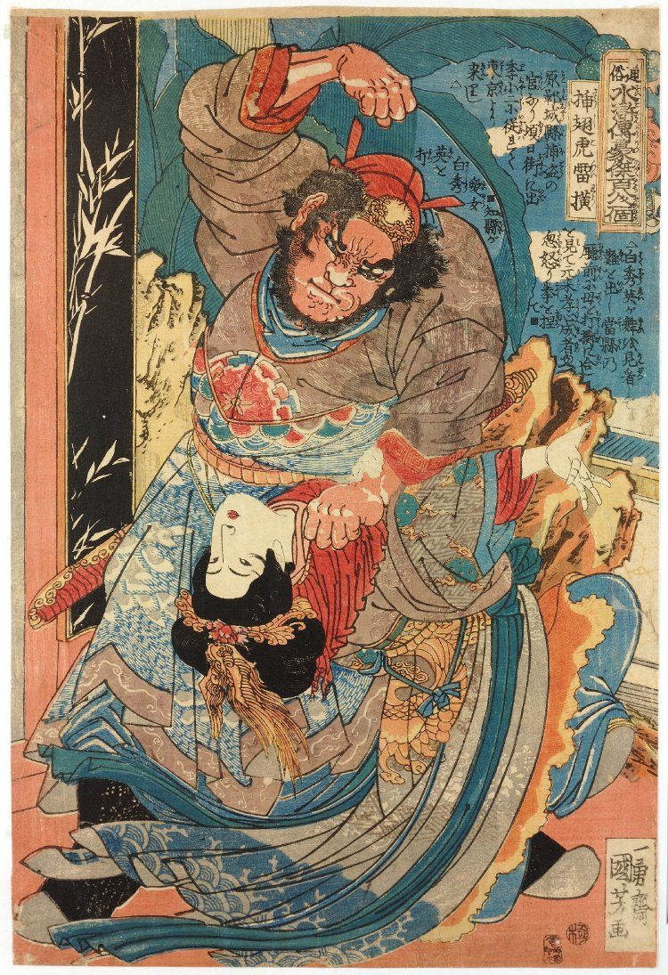 Lei Heng (雷橫) attacking 阎婆惜 (Diêm Bà Tích), his right fist raised to strike her.